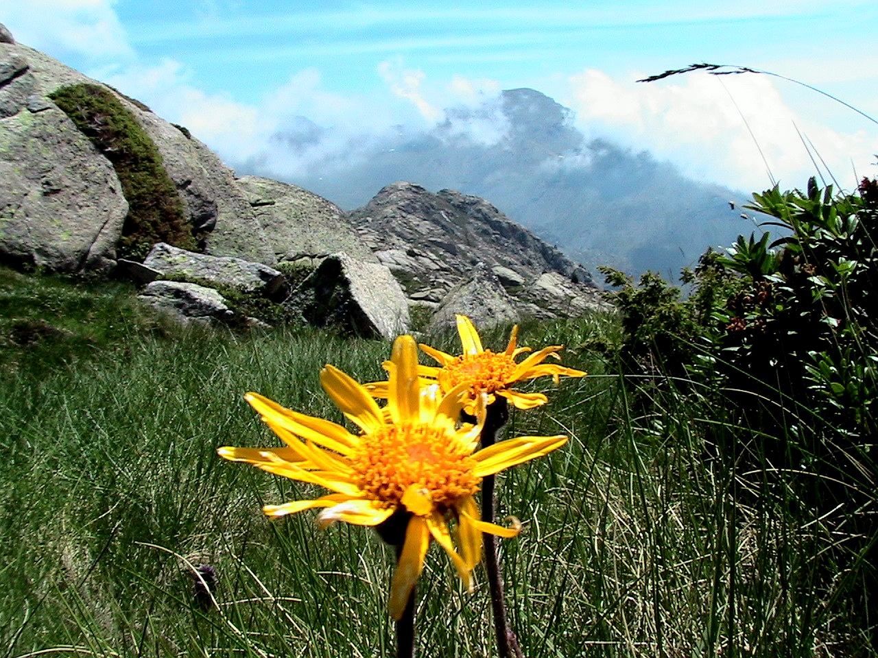 Arnica montana. In Estany Tort, Cabdella (Pallars Jussà - Catalunya). To 2.305 m. altitude